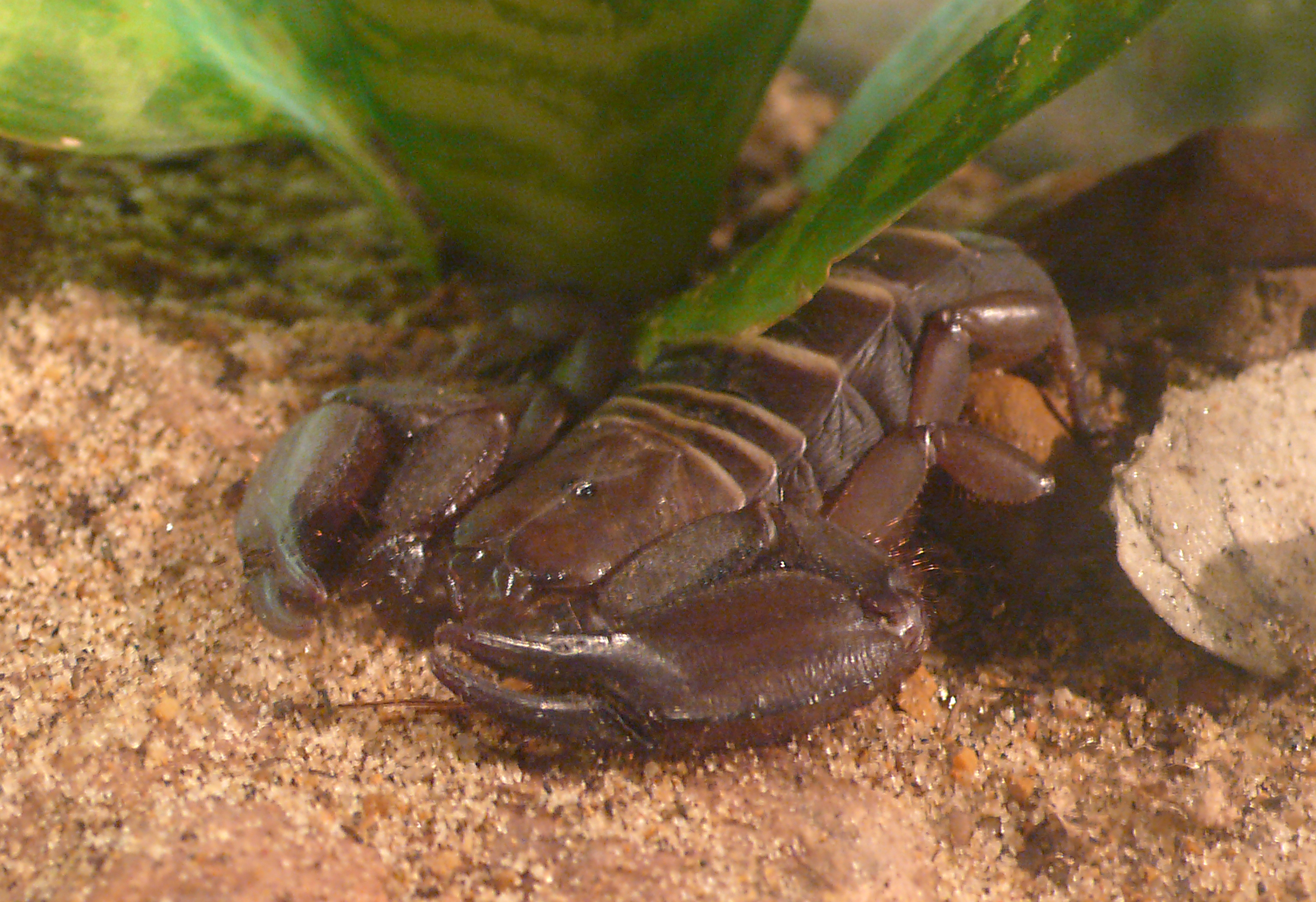 Flat rock scorpion (Hadogenes troglodytes)